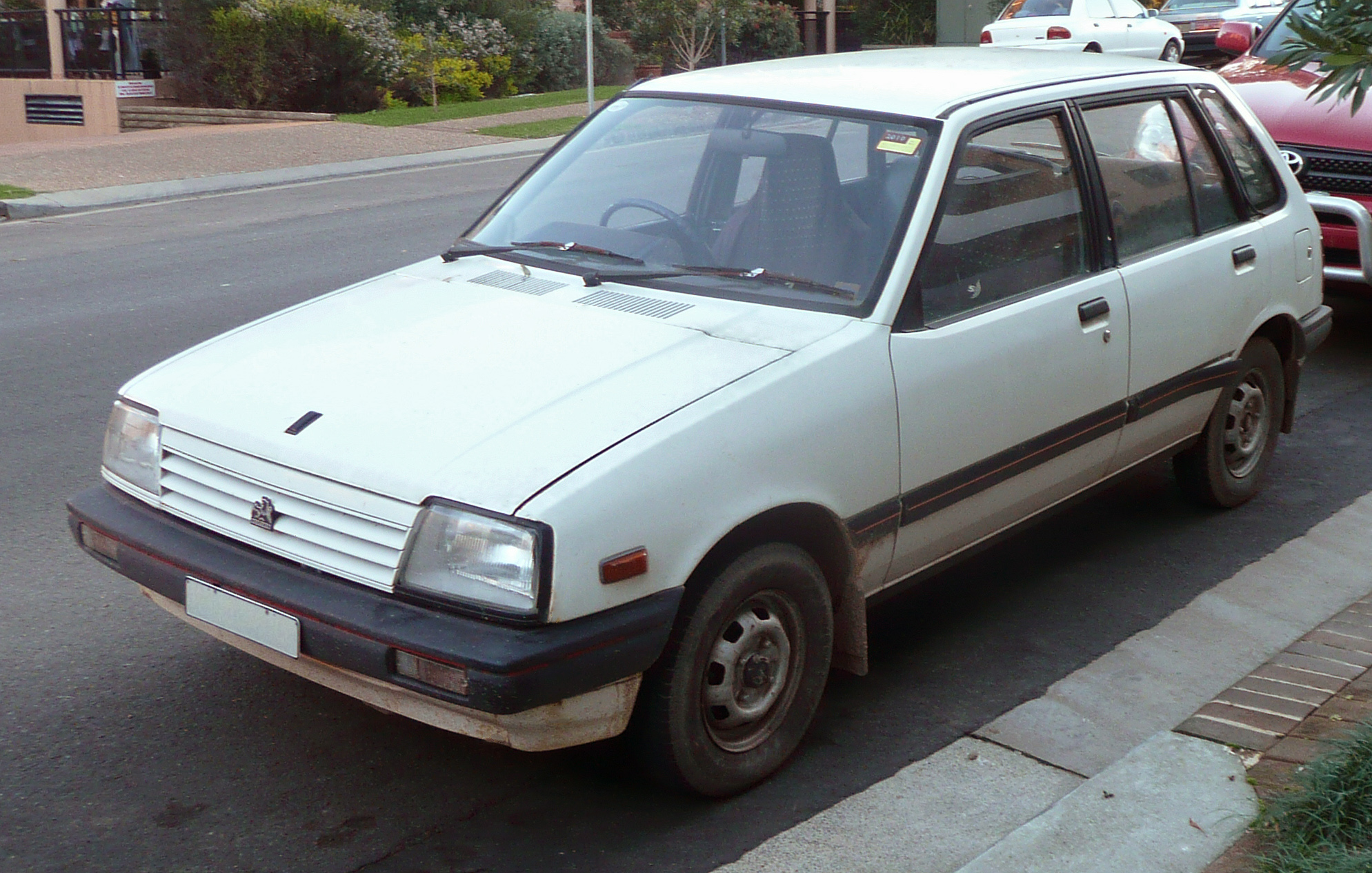 1985–1986 Holden Barina (MB) hatchback. Photographed in Sutherland, New South Wales, Australia.